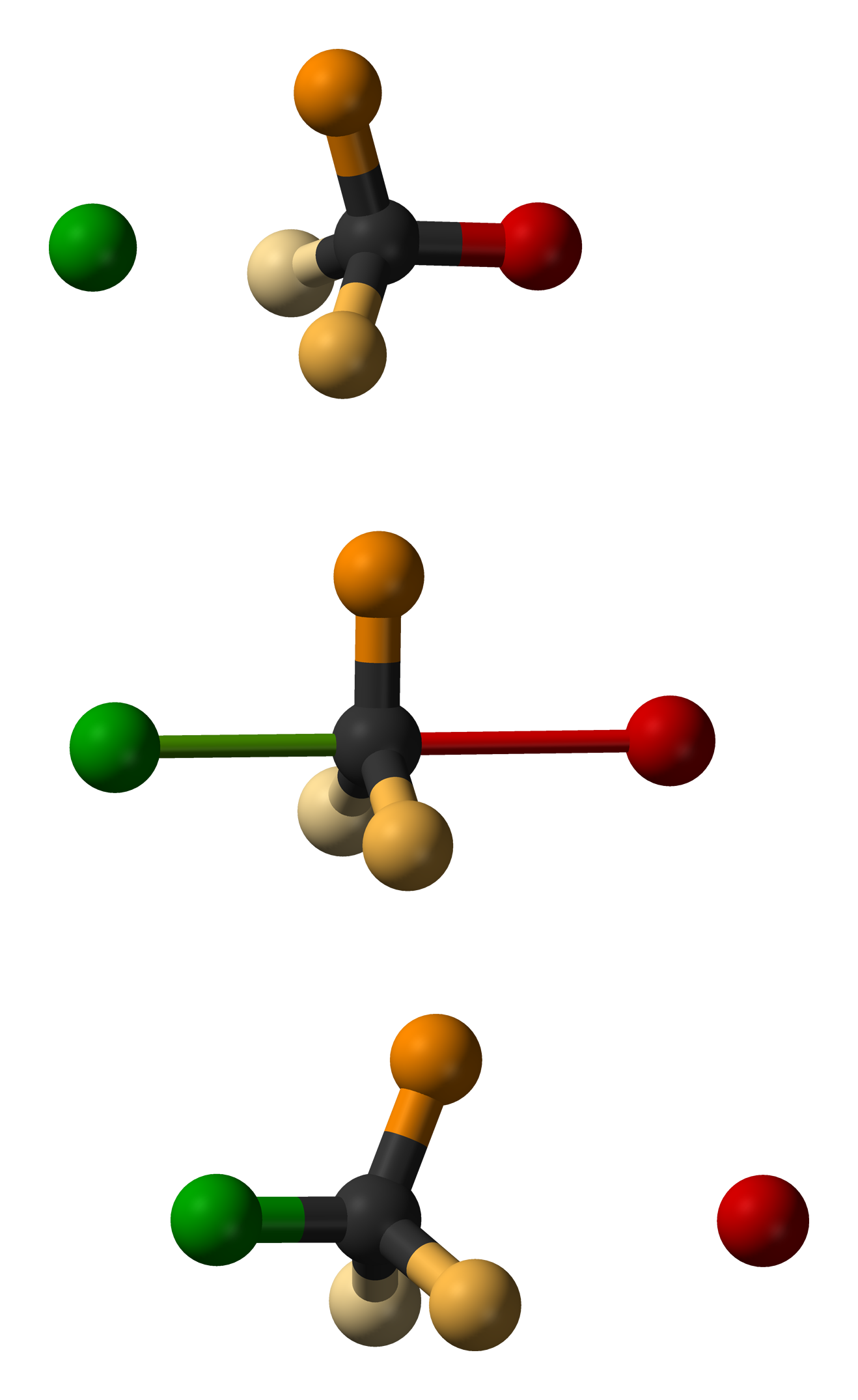 Montage, using ball-and-stick models, of the three steps in an SN2 reaction. Colour is used to emphasise the inversion of stereochemical configuration (Walden inversion) that occurs at the central atom. The green atom is the nucleophile, the red atom is the leaving group and the three orange atoms are substituents.